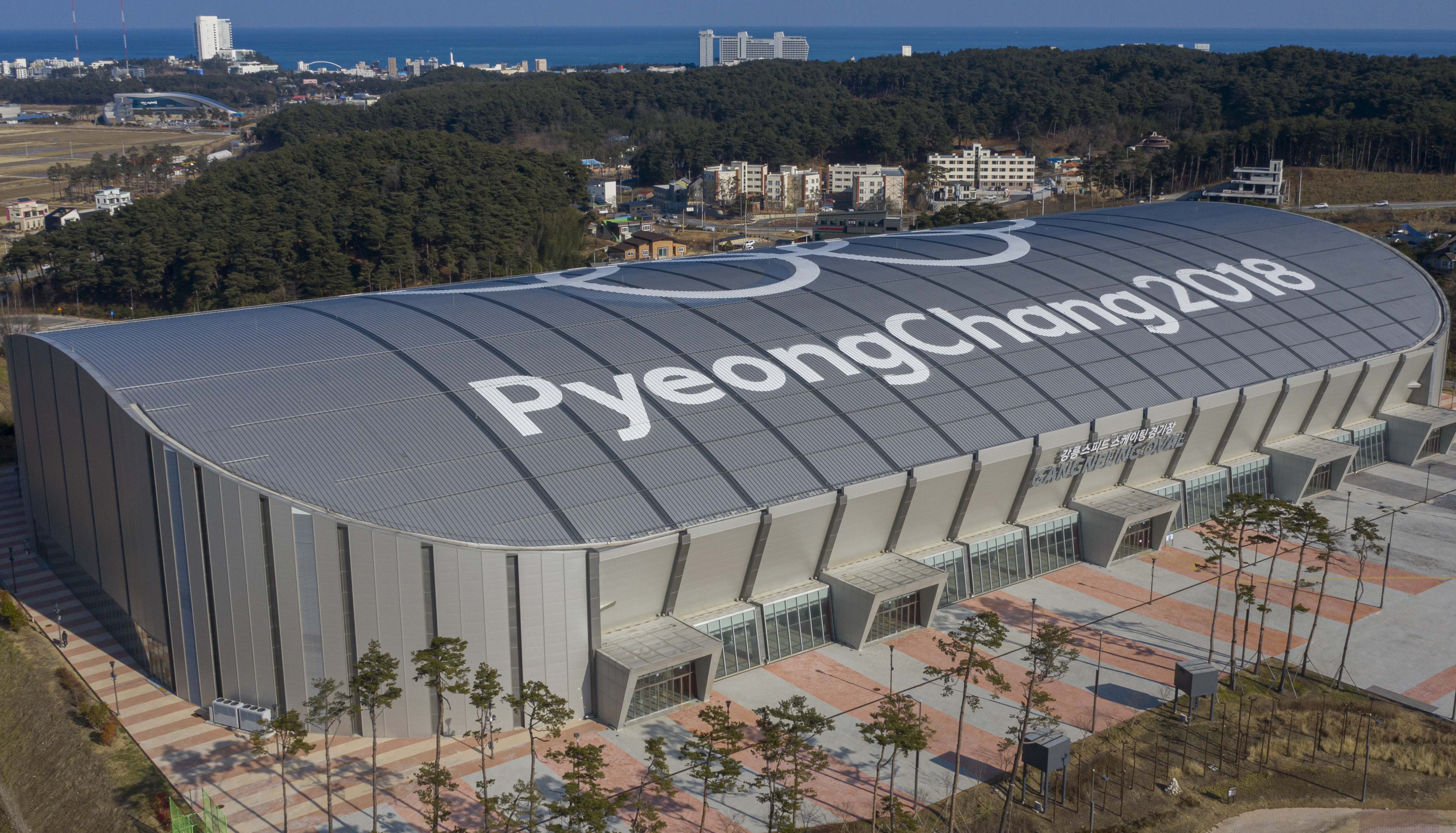 Aerial view of Gangneung Oval, South Korea